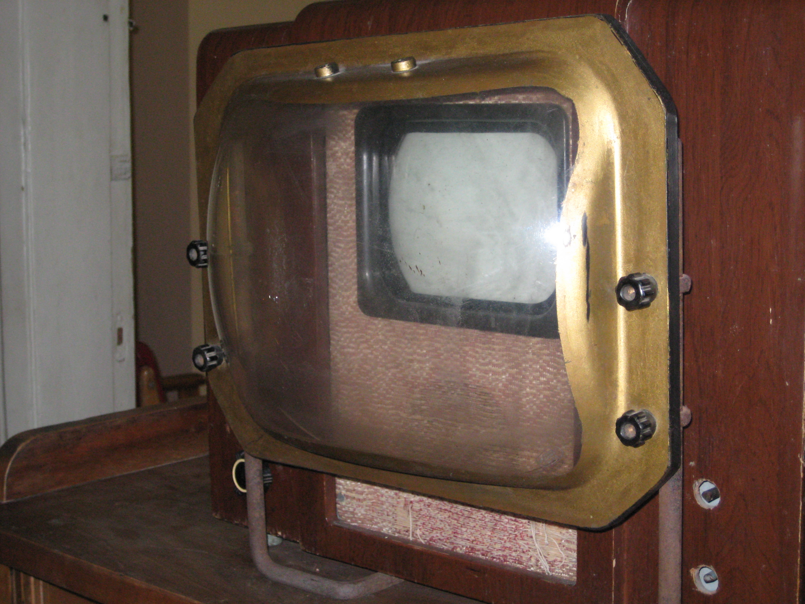 Early soviet TV in the house of Pasternak